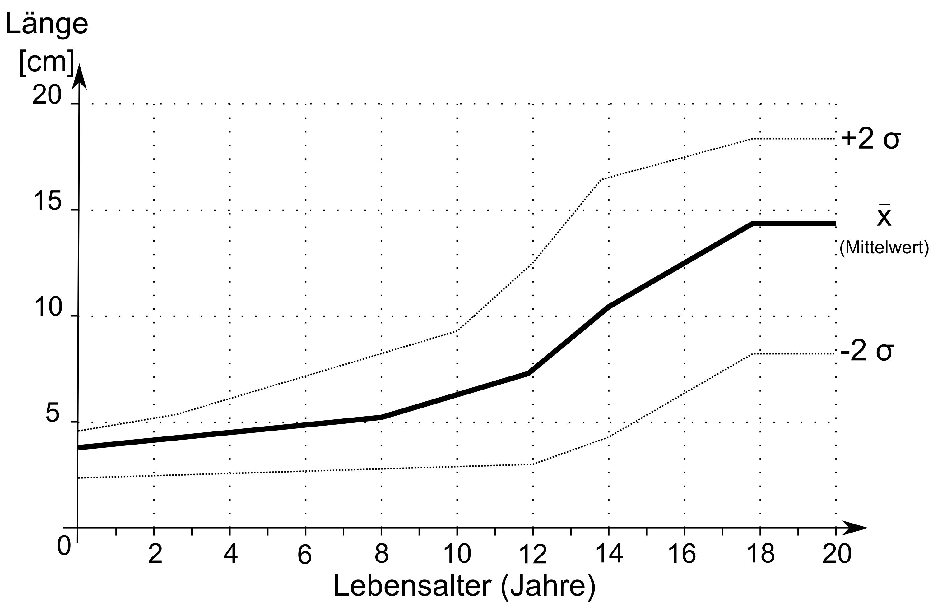 Average penis size in correlation with age. The upper and lower graph displays the 2 sigma curves. Data taken from the book W. Weidner, E. W. Hauck : Männermedizin. W. B. Schill, R. G. Bretzel, W. Weidner (Herausgeber) Urban & Fischer Verlag, S. 448. ISBN 3-437-23260-6 Made with Inkscape. Derived from an SVG masterfile.